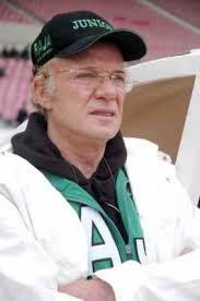 Oscar